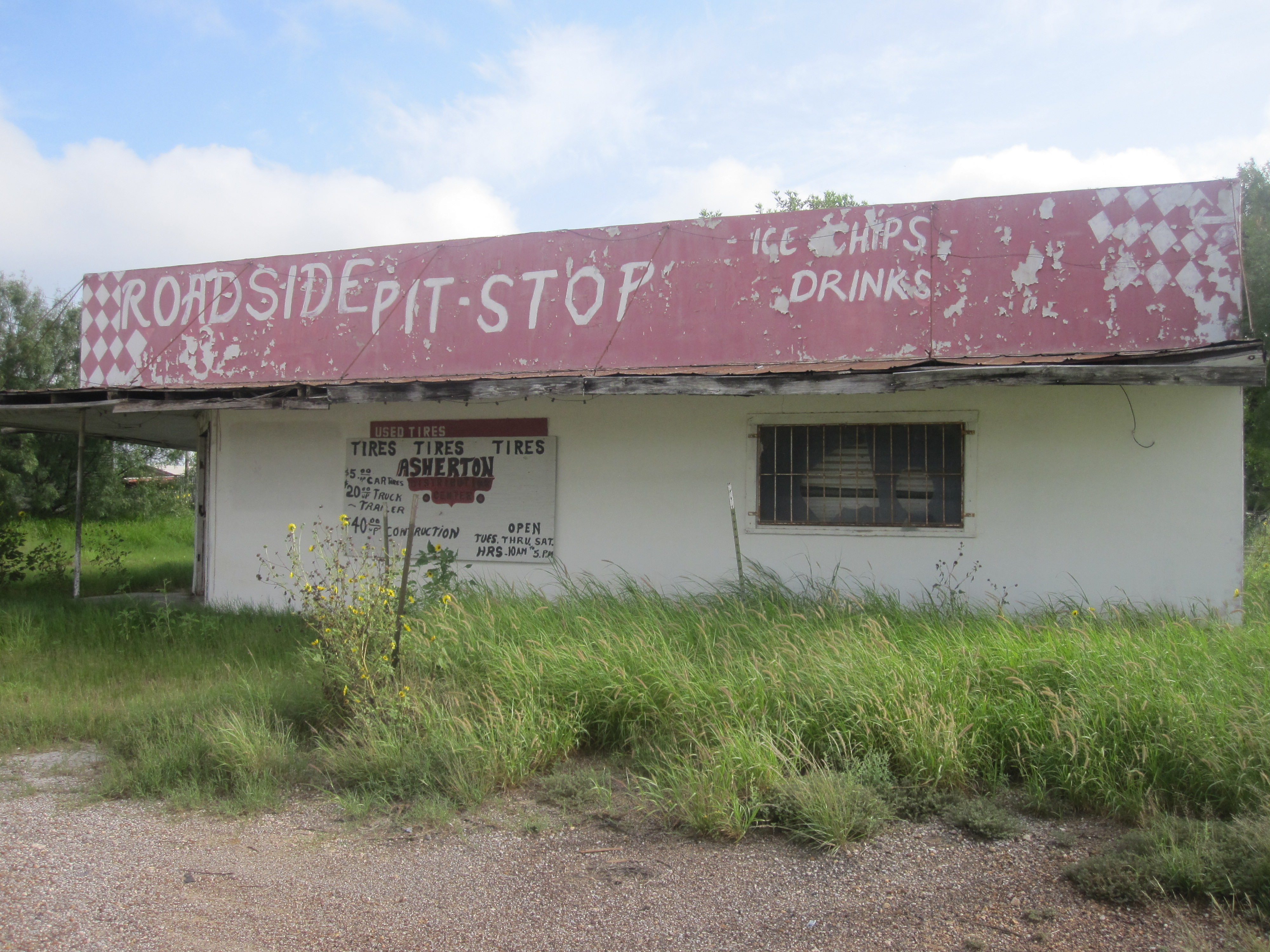 I took photo with Canon camera in Asherton, TX.